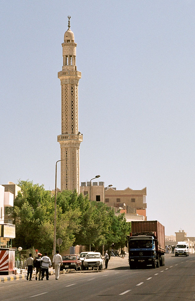 A mosque at El Nasr Way in Dahar, old part of Hurghada, Egypt.